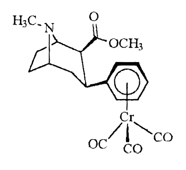 IUPAC: [η6-(2β-carbomethoxy-3β-phenyl)tropane]tricarbonylchromium